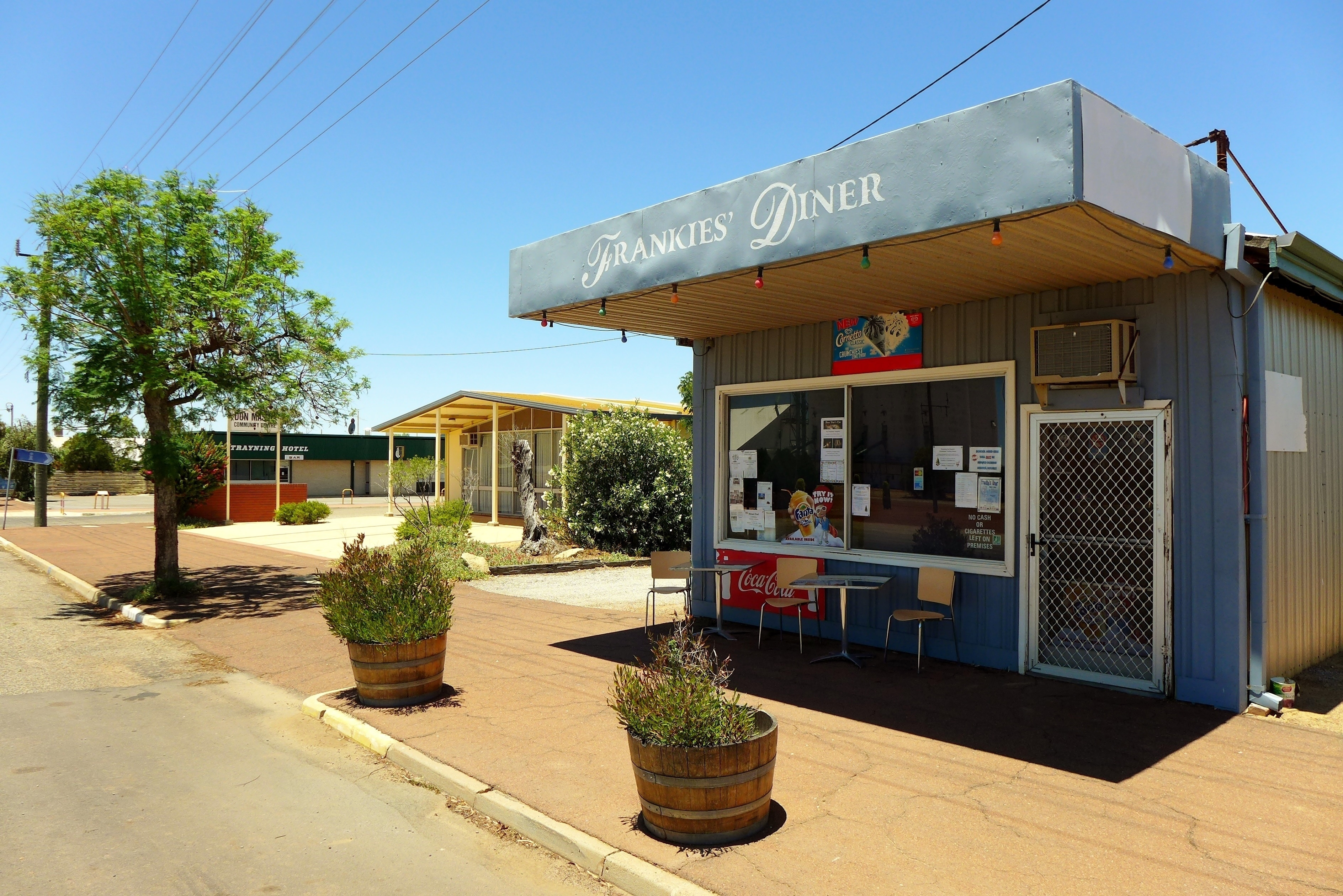 View of Frankies' Diner, Railway Street, Trayning, Western Australia. In the background are (L-R) the Trayning Hotel and the Don Mason Community Centre.